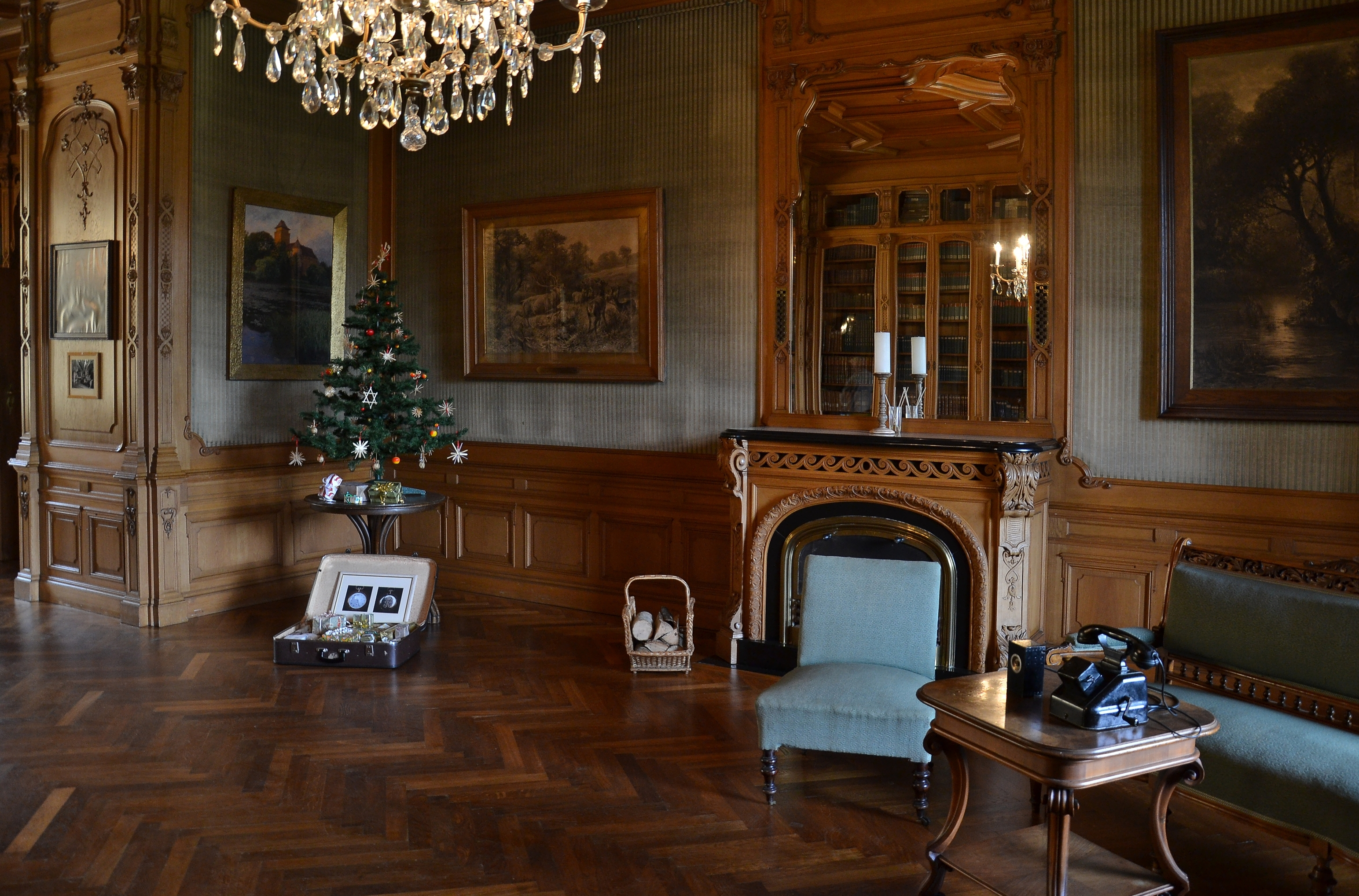 Castle Eckartsau, Austria. It was here in 1918 under Emperor Karl I that the imperial family spent its last Christmas and its last days on Austrian soil.